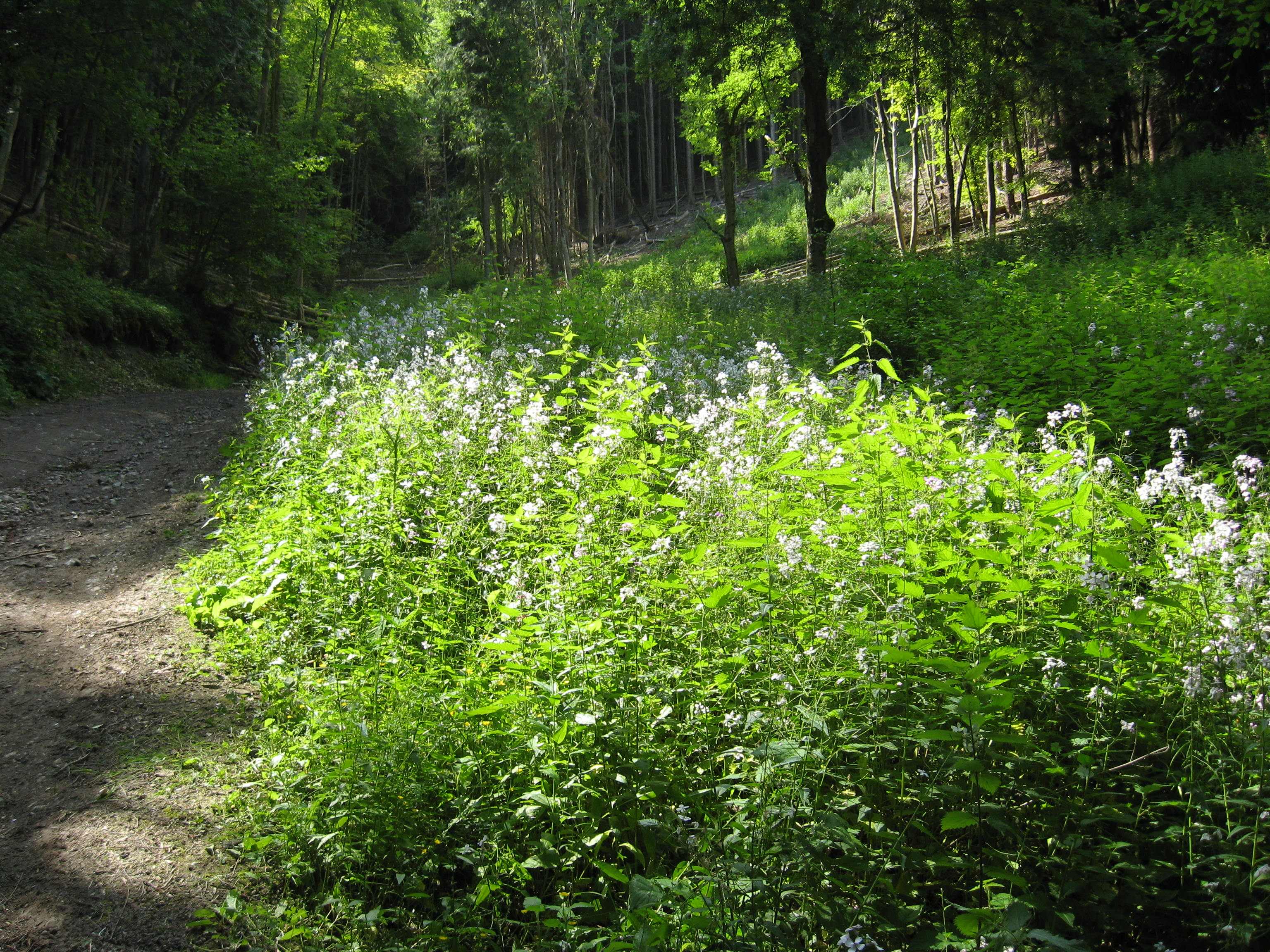 Clump of naturalized Sweet Rocket grwoing at Whitelands Wood, Butser Hill, England.